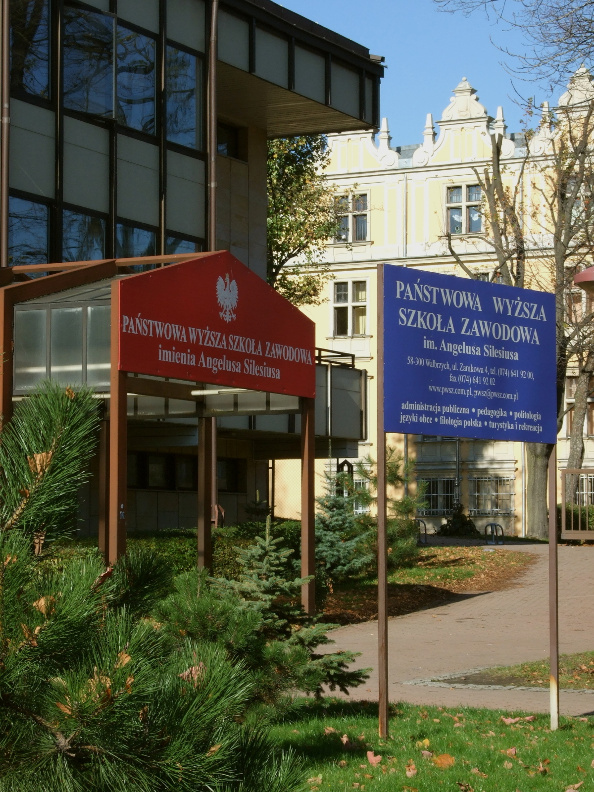 Państwowa Wyższa Szkoła Zawodowa im. Angelusa Silesiusa w Wałbrzychu, building B entrance.